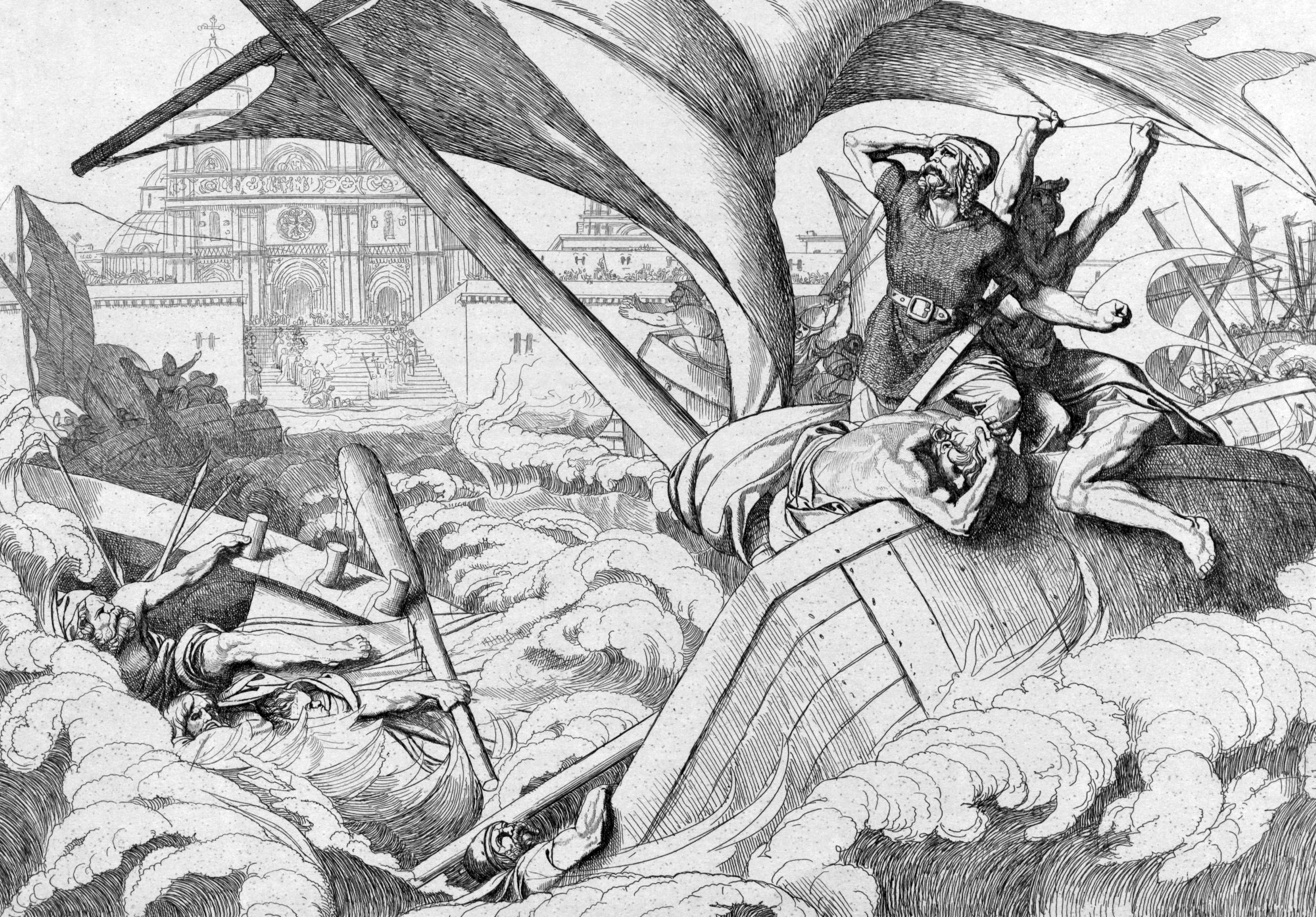 Rus'–Byzantine War (860)